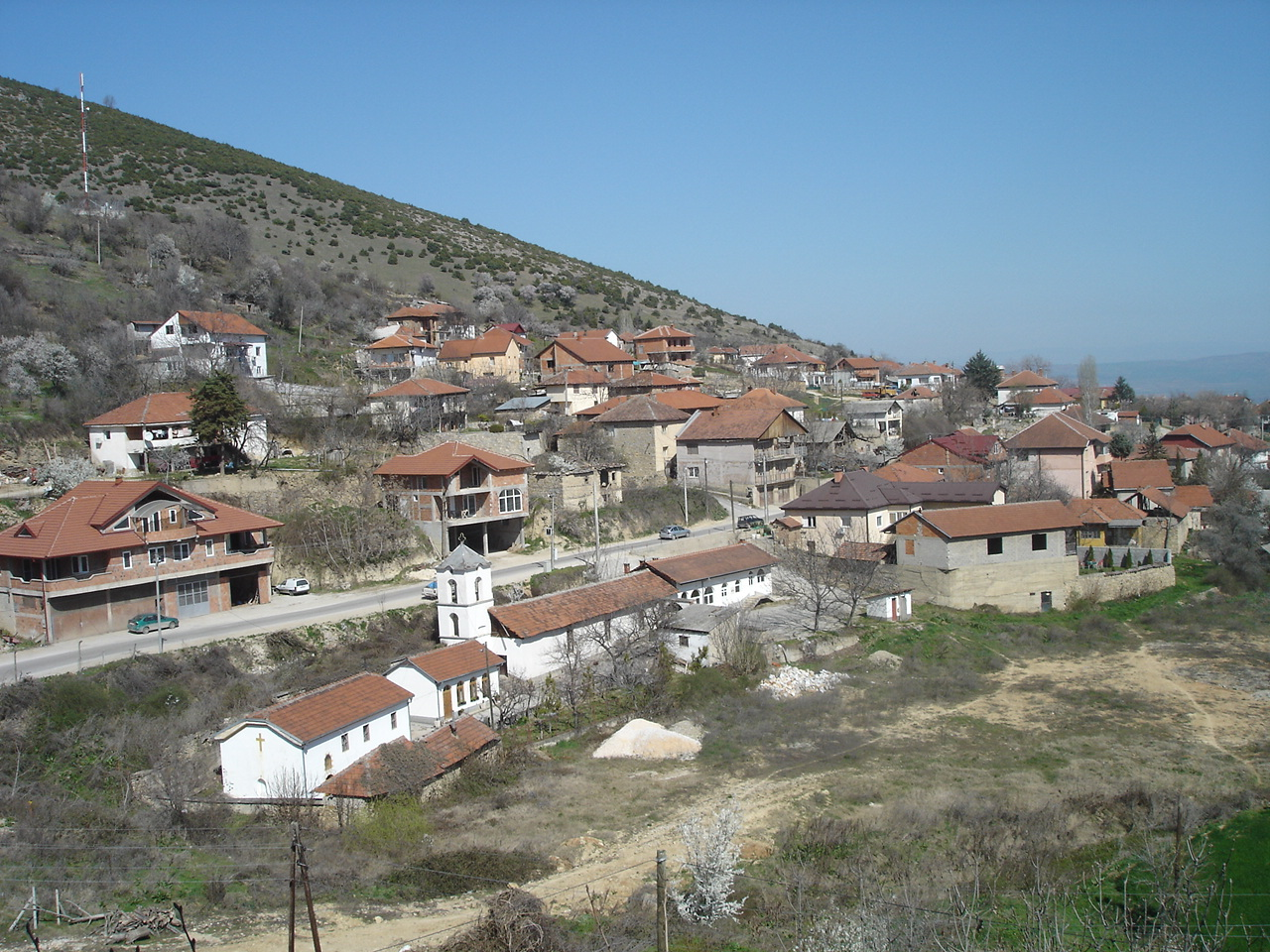 village of Sopiste, Macedonia